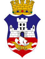 middle coat of arms of Belgrade